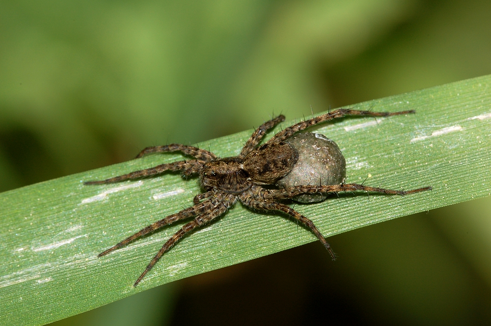 Pardosa lugubris, Mörfelden, Hesse, Germany